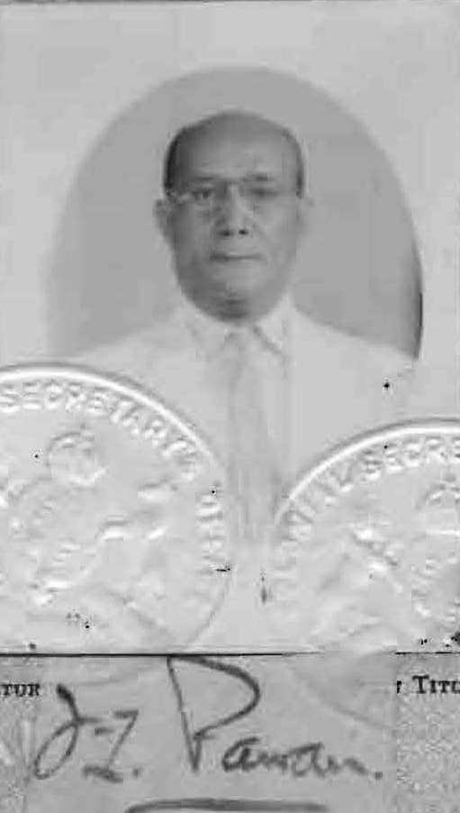 This passport photo comes from an old photo of a passport of Dr. Pawan which is now owned by the Greenhalls Trust-WI, who have given me permission to use it. I will email a copy of the letter granting permission to use it, as requested in the Permission box below. John E. Hill (talk) 11:10, 25 March 2011 (UTC)